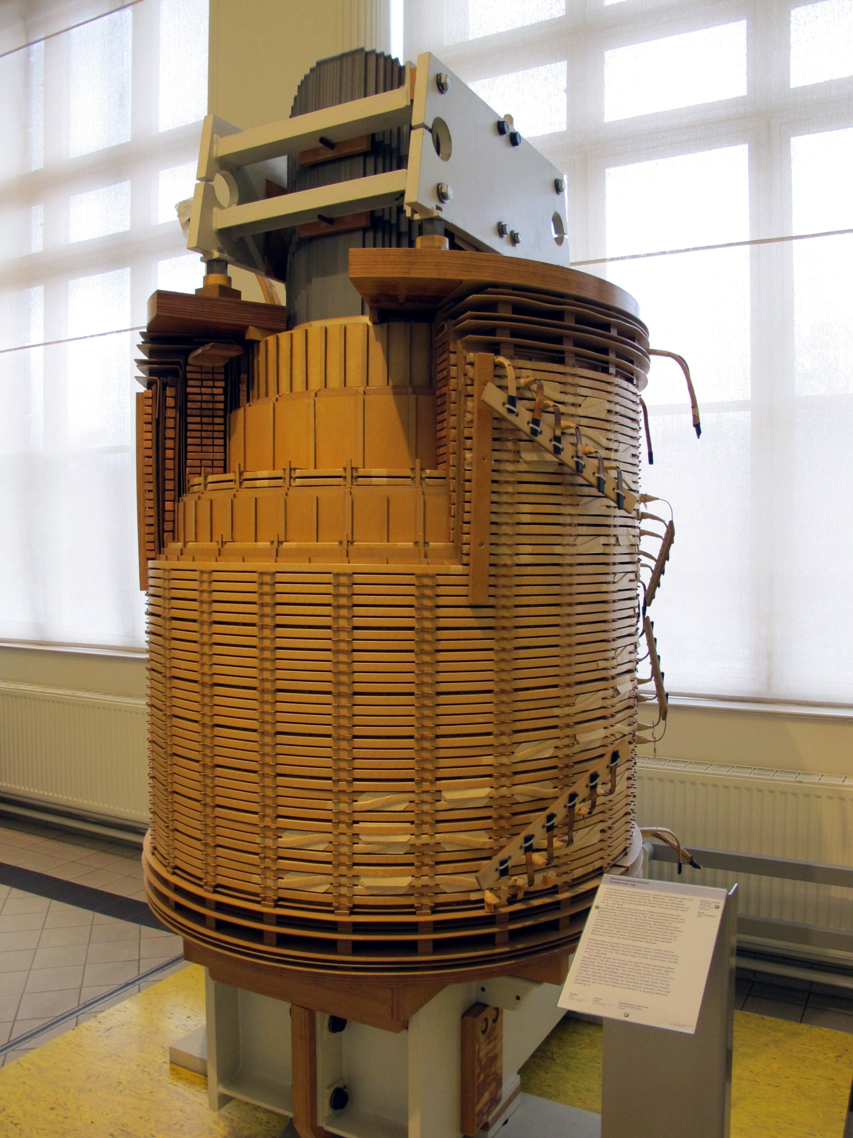 Internal construction of one phase of a TMW 50971 electric utility power transformer for three-phase alternating current. The iron core in the center consists of a stack of silicon steel laminations. The core cross section is adapted by gradations to the circular cross-sectional shape of the coil. The secondary winding (center) is implemented cylindric, the primary voltage winding outside present is wounded around the other windings and the core. The internal and smallest coil is a tertiary winding used for the compensation of phase imbalances. The windings consist of copper rails separated by insulating materials. There are three of these legs in the complete transformer, which is contained in a housing which is completely filled with insulating oil. Primary winding: 110 kV with a max. current capacity of 210 A Secondary winding: 10 kV with a max. current capacity of 2179 A Power: 40 MVA Manufactured in 1999 by VA Tech Elin EBG GmBH